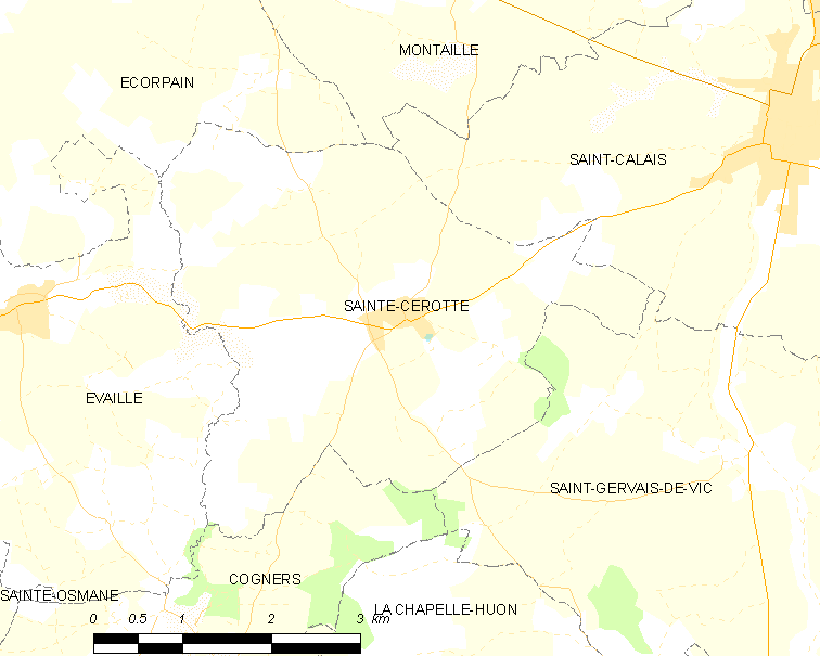 Map of French municipality